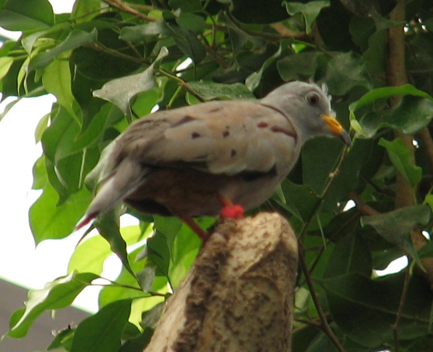 Croaking ground Dove Columbina cruziana at Cincinnati Zoo